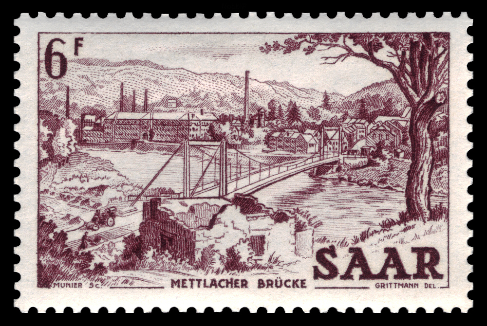 stamps series “Ansichten aus dem Saarland” (“Saar V”)